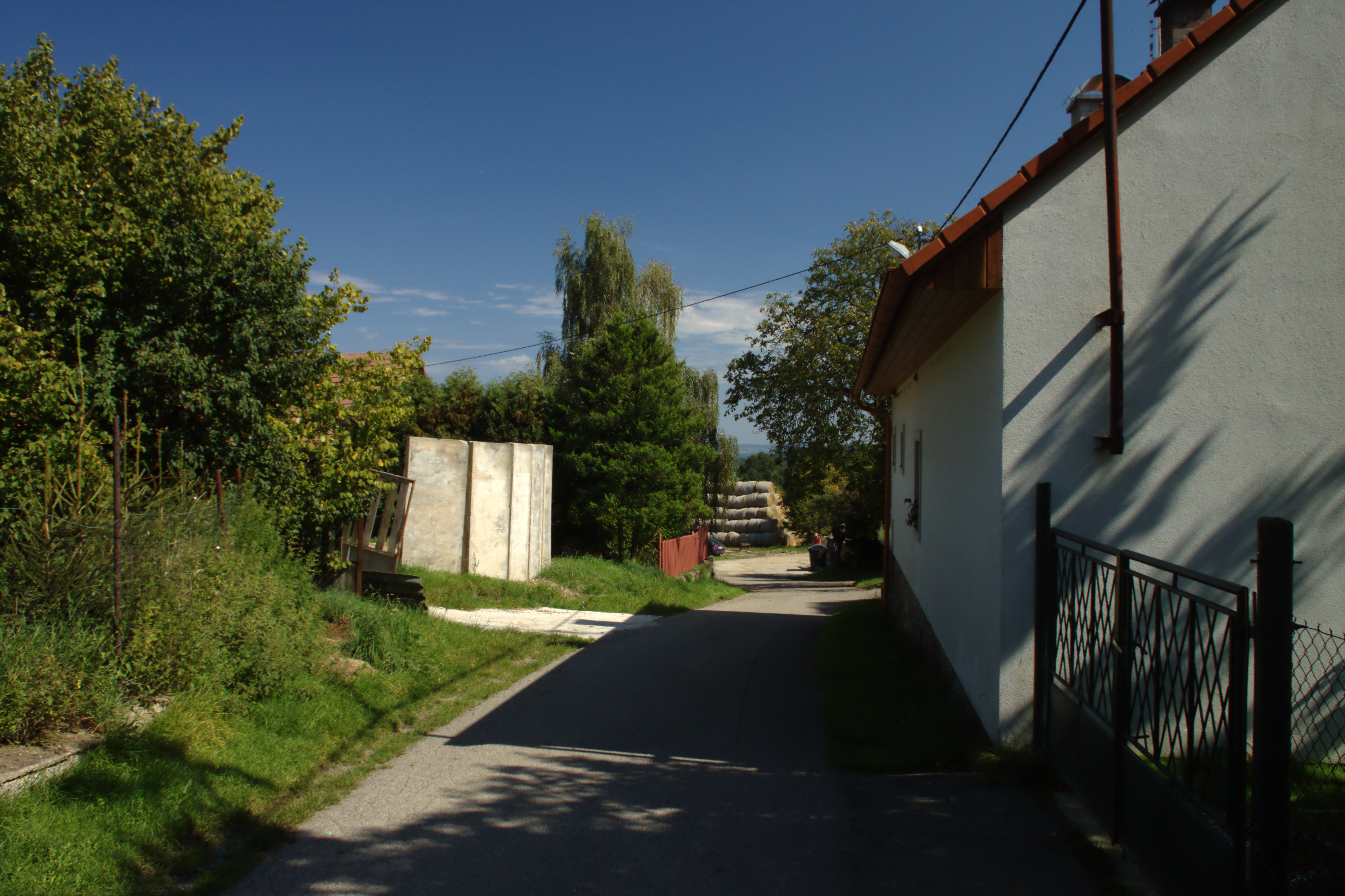 Main road in the village of Lhota near Vysoký Újezd, Central Bohemian Region, CZ